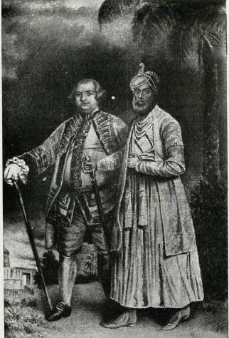 Stringer Lawrence, who established the Madras Army with Wallajah, the Nawab of the Carnatic.